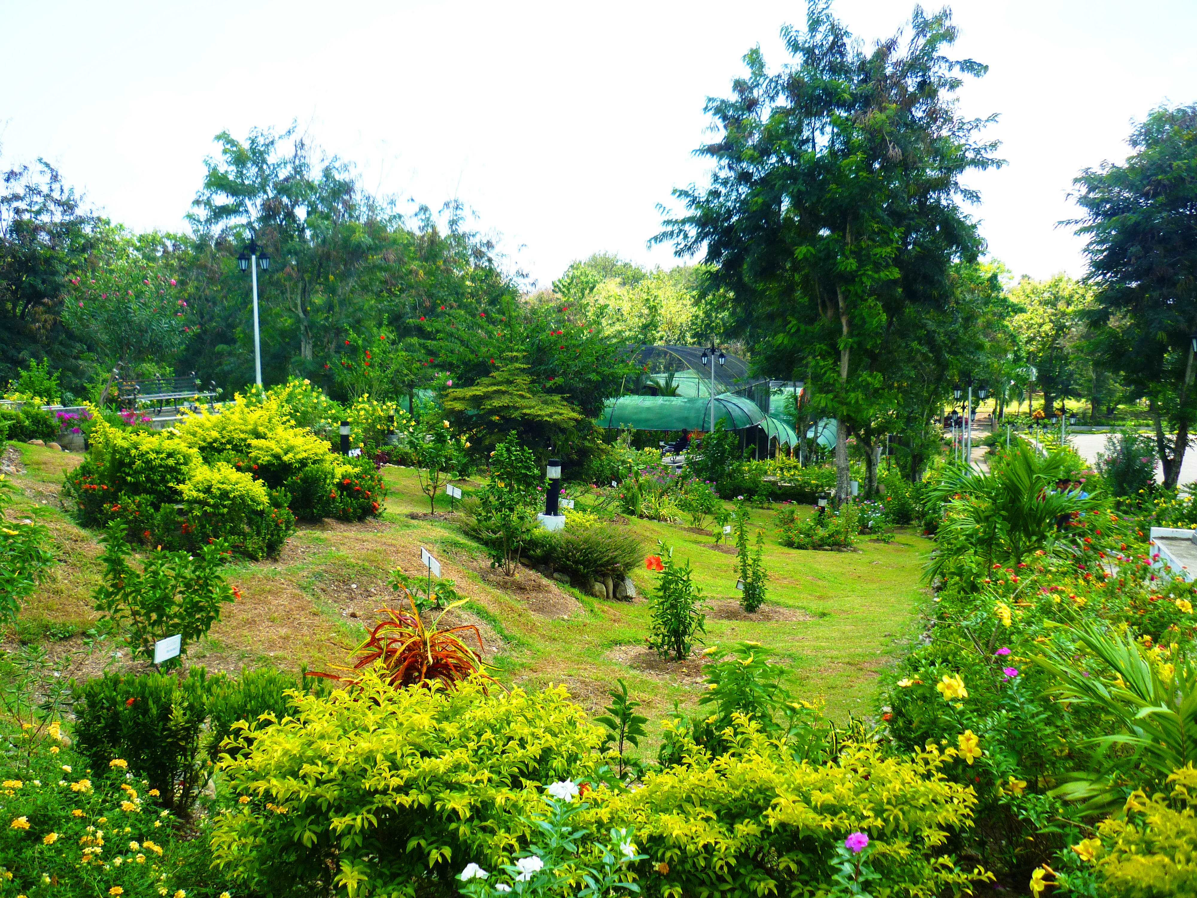 La Jardin de Maria Clara Lobregat , Zamboanga City